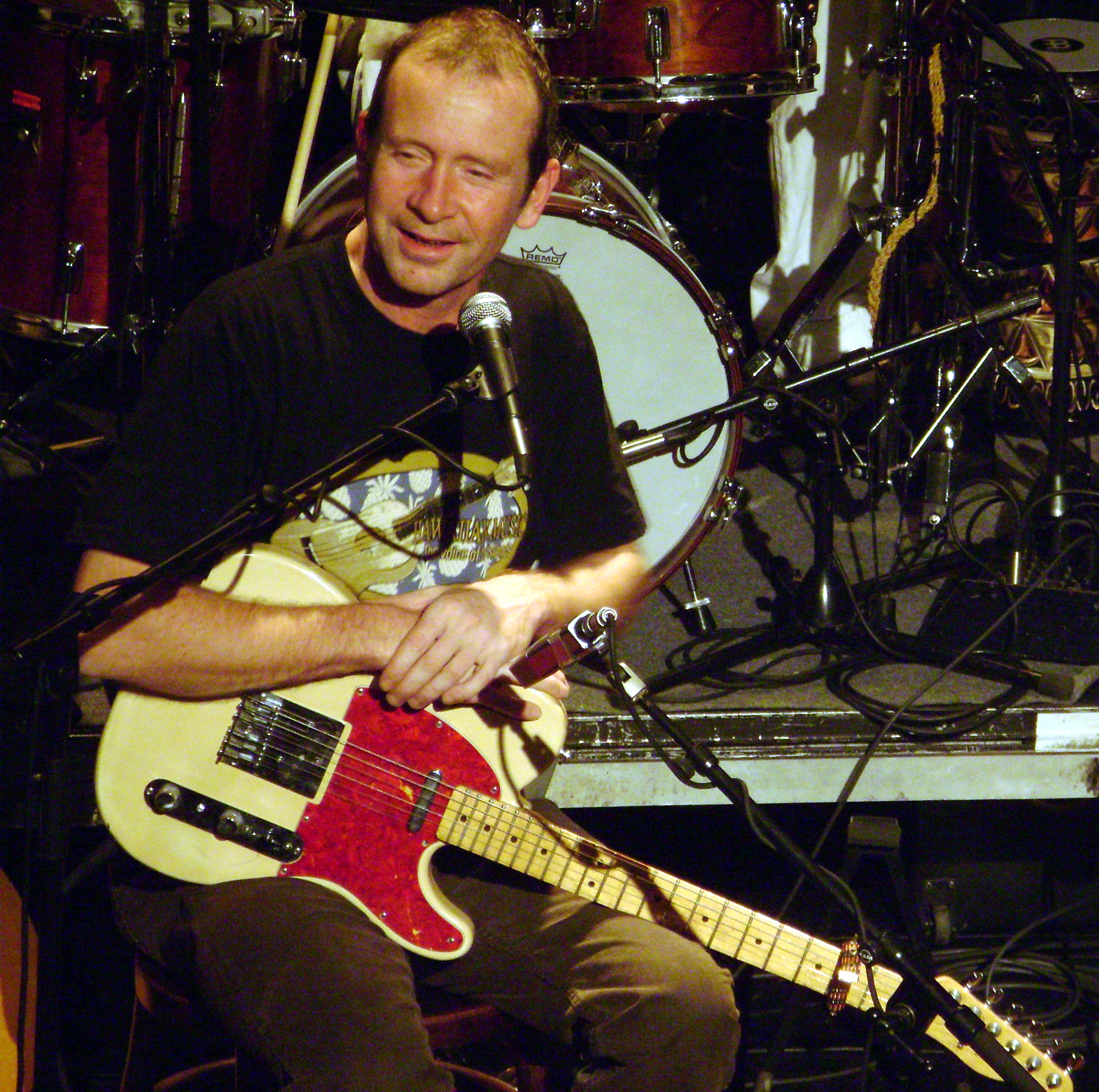 Klaus Trabitsch at a concert with the Bethlehem All Stars. Treibhaus Innsbruck, 2008